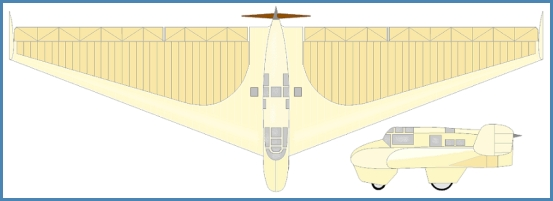 Lippisch Delta 1 Motor